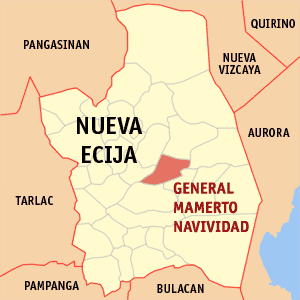 Map of Nueva Ecija showing the location of General Mamerto Natividad